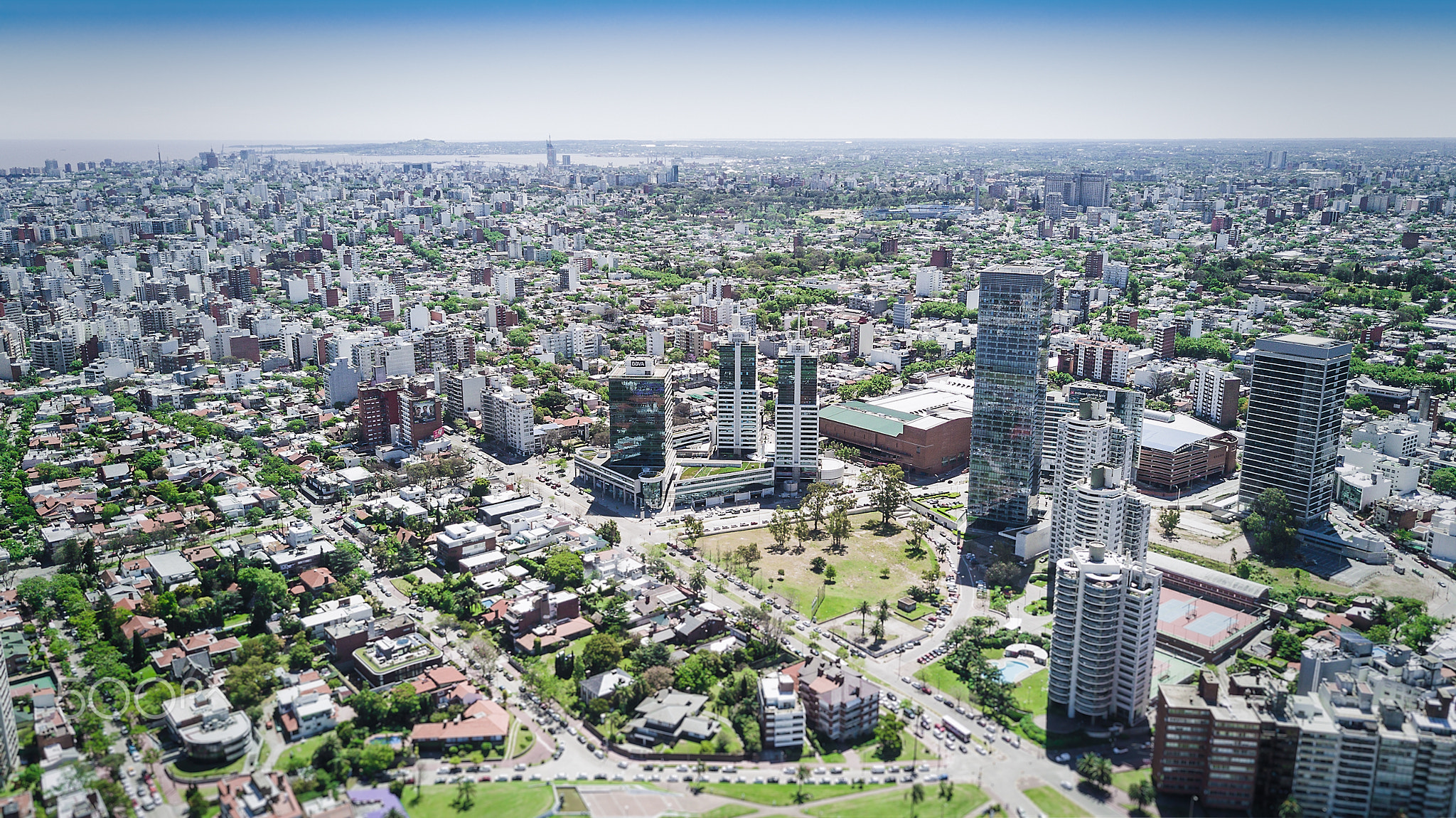 500px provided description: Cityscape Pocitos neighbor [#sunlight ,#architecture ,#cityscape ,#tilt-shift ,#building ,#aerial ,#urbex ,#urban exploration ,#Montevideo ,#Uruguay ,#LAndscapes ,#UAV ,#DJI ,#springday ,#Mavic pro]